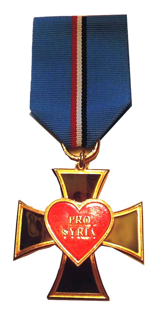 Honorary Cross of Merit PRO SYRIA